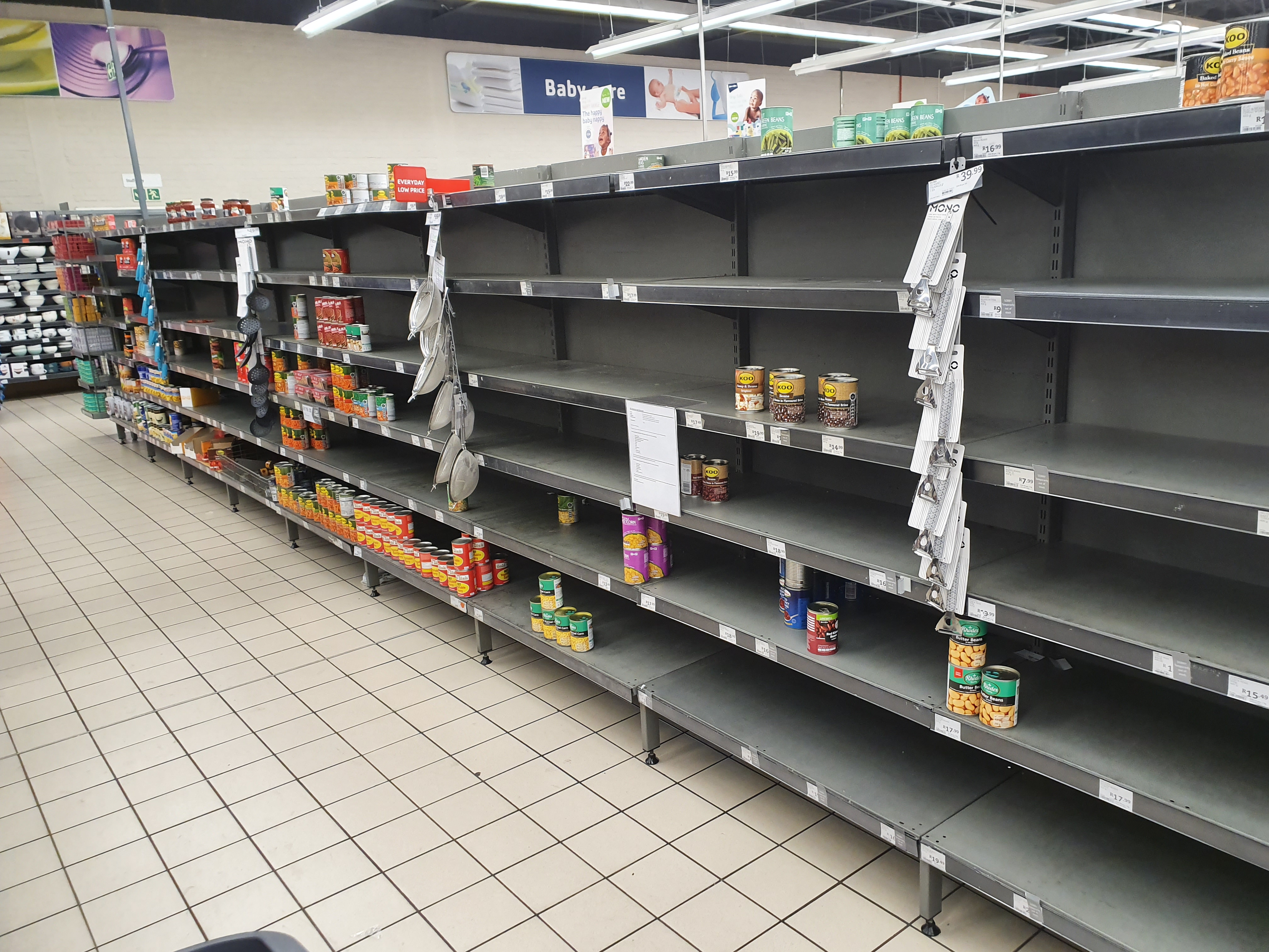 Before the national lockdown came into effect in South Africa, many people stocked up on canned goods and other foods leaving many shelves almost empty.